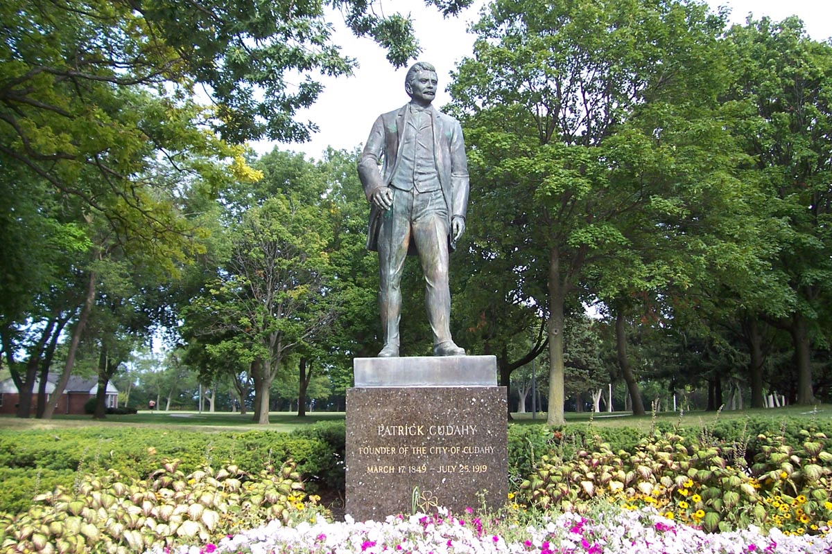 Memorial statue of city founder Patrick Cudahy, located on the grounds of Sheridan Park in Cudahy, Wisconsin. It was dedicated on April 9,1964. [1]